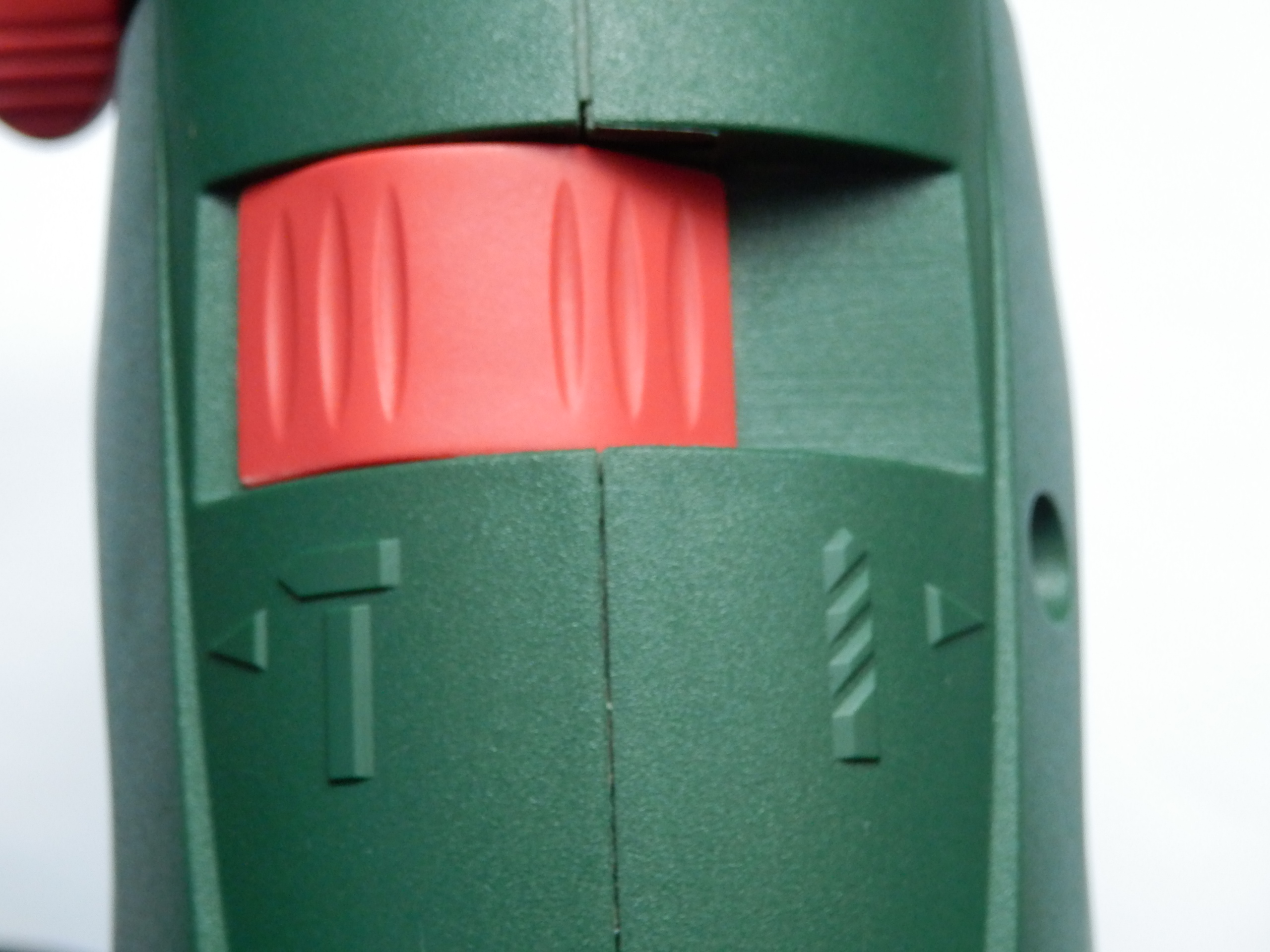 Hammer mechanism switch in Bosch hammer drill